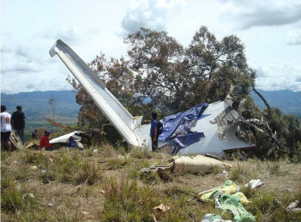 Aviastar Mandiri PK-BRD wreckage